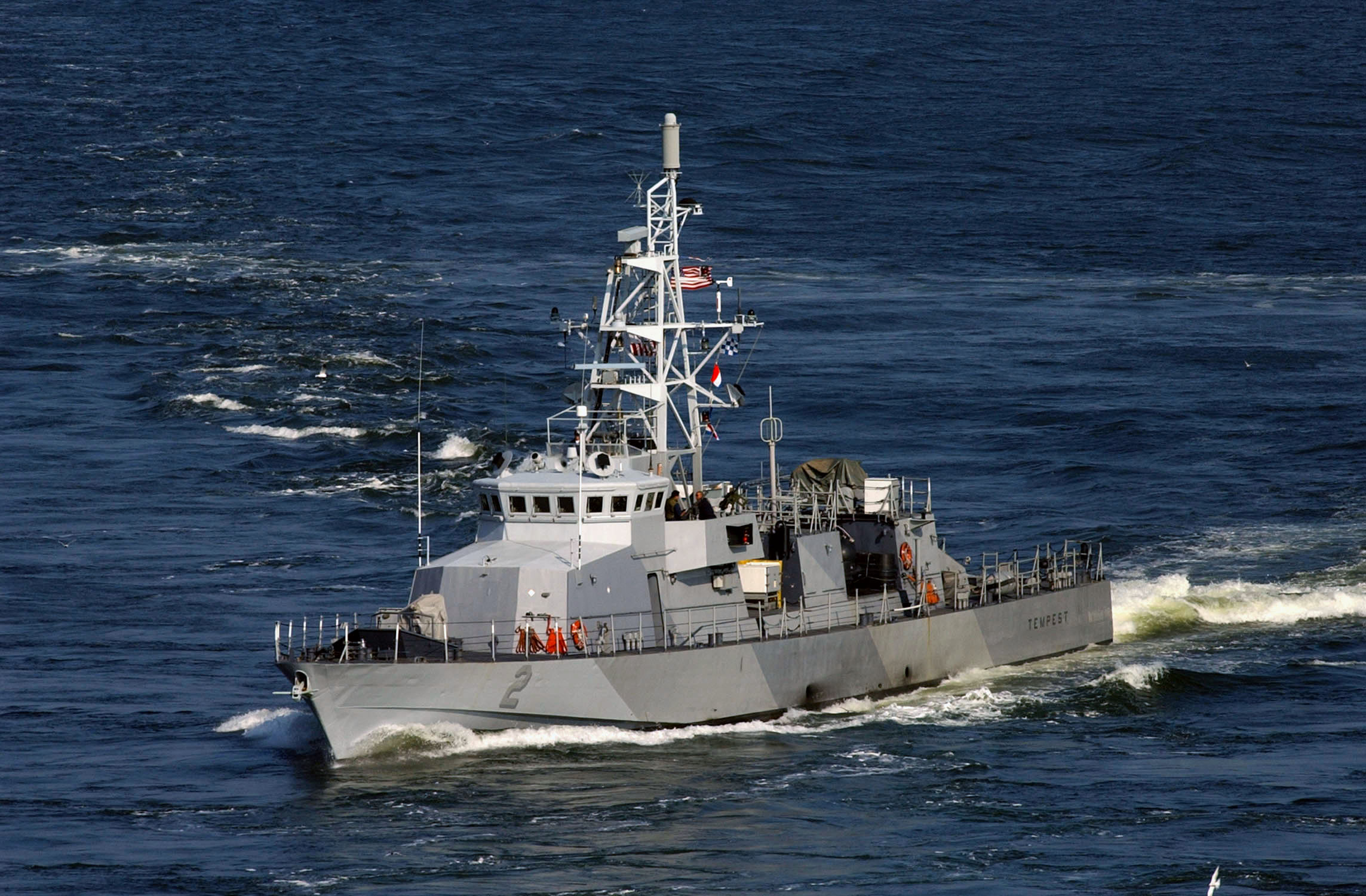 The Atlantic Ocean (Jul. 10, 2003) — The coastal patrol craft USS Tempest (PC-2) escorts USS Harry S. Truman (CVN-75) as Truman departs Naval Station Norfolk to begin conducting Carrier Qualifications (CQ) and an ammo off load in the Atlantic Ocean.